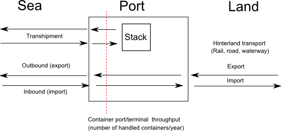 Scheme transhipment container port